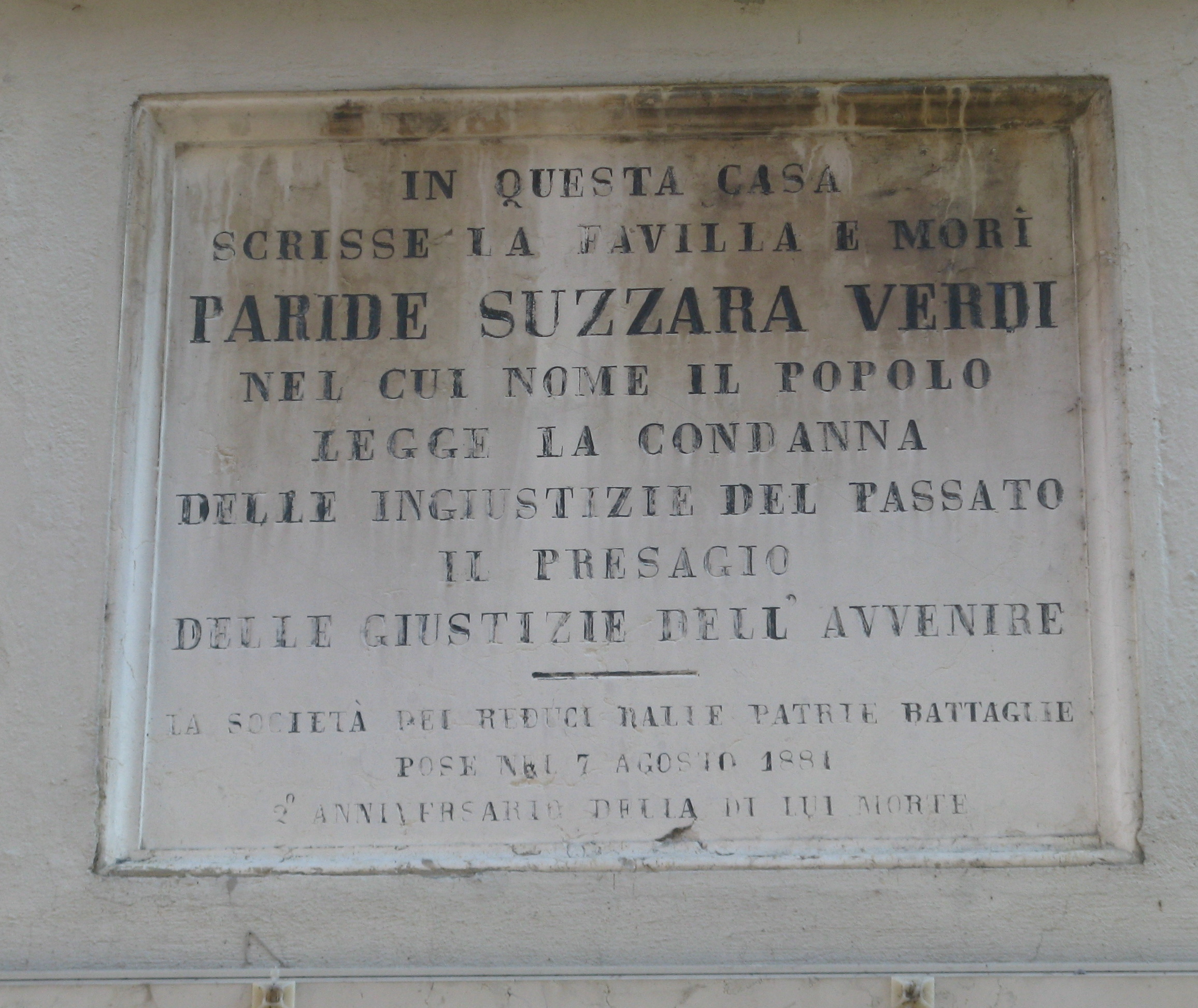 Commemorative plaque to Paride Suzzara-Verdi (1 April 1826 - 7 August 1879), an Italian patriot, journalist and politician.